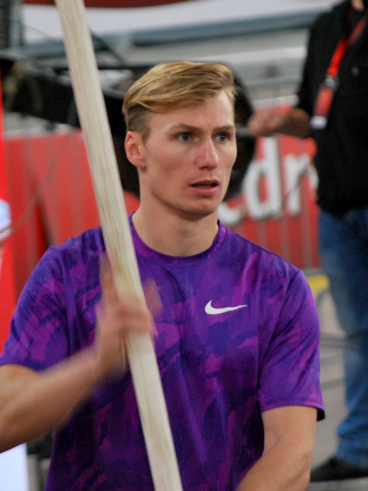 Igor Bychkov, pole vaulter from Spain, Pedro's Cup Łódź 2016